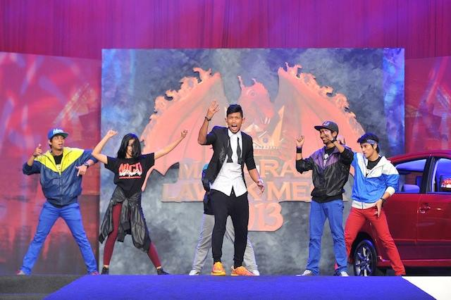 Nabil Week 9